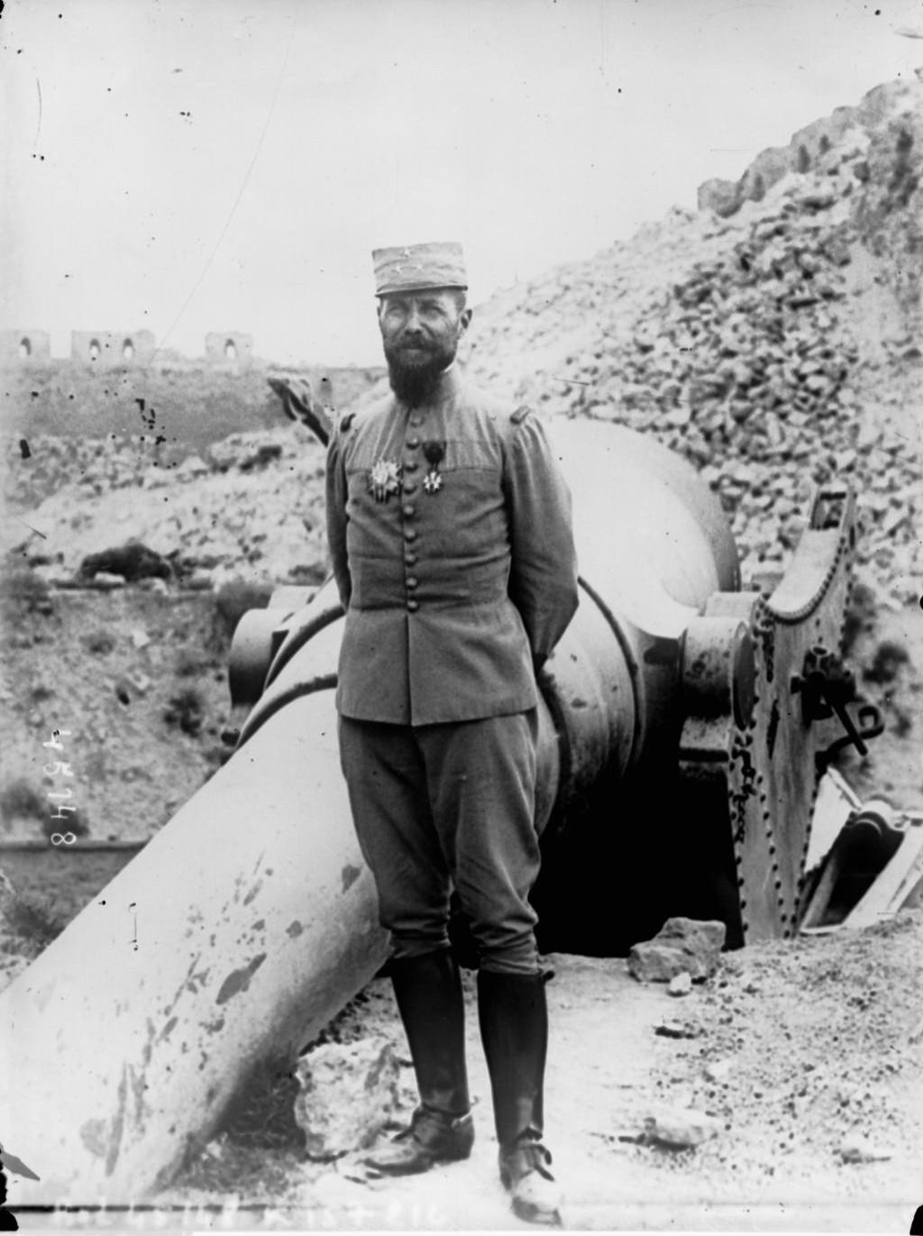 General Gouraud in the Dardanelles in 1915, before his arm injury.